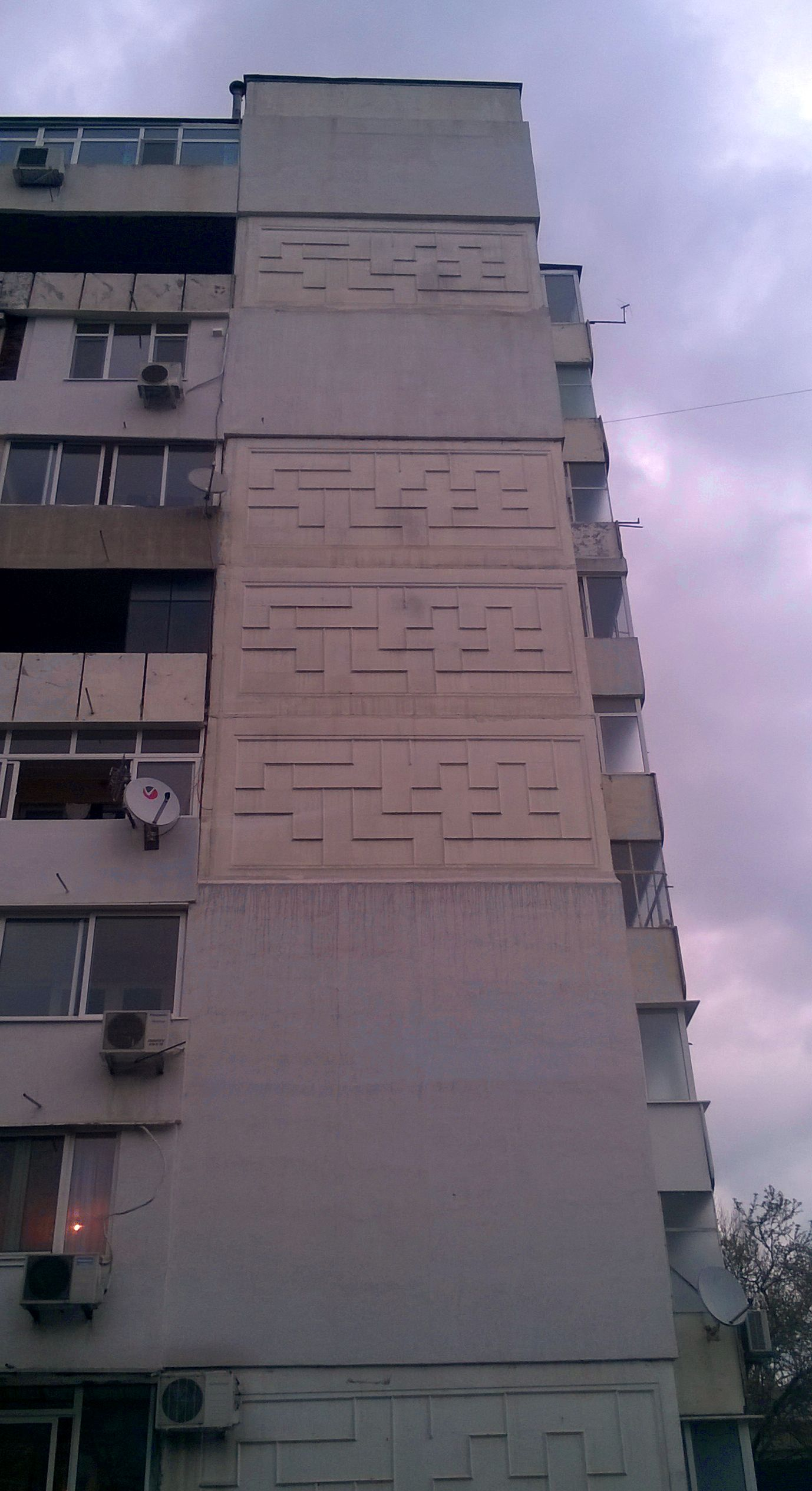 Plattenbau building decorated with Pentomino tiles, Varna, Bulgaria